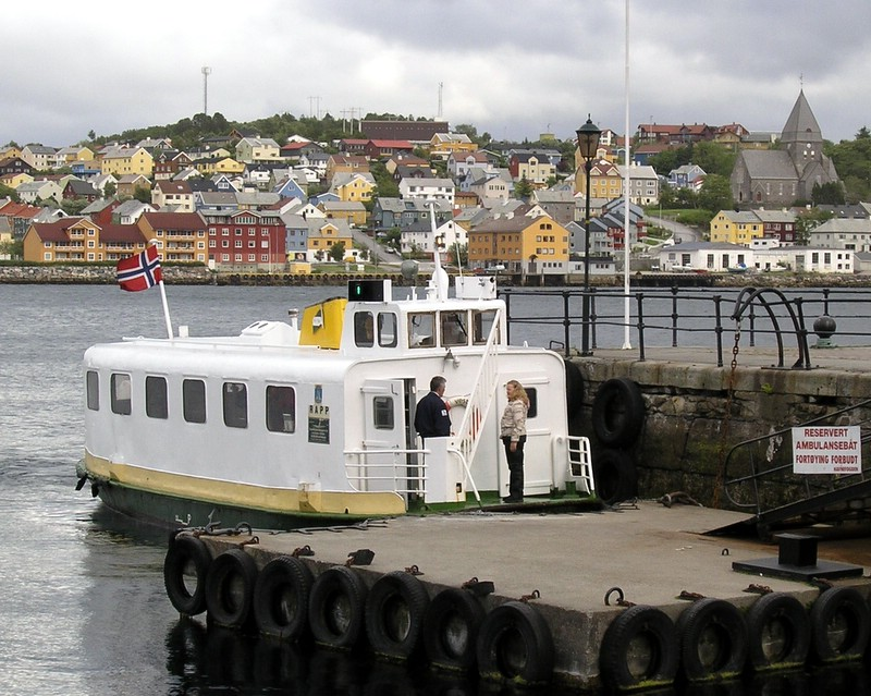 The boat "Rapp" by the pier at Kirklandet, Kristiansund, Norway.